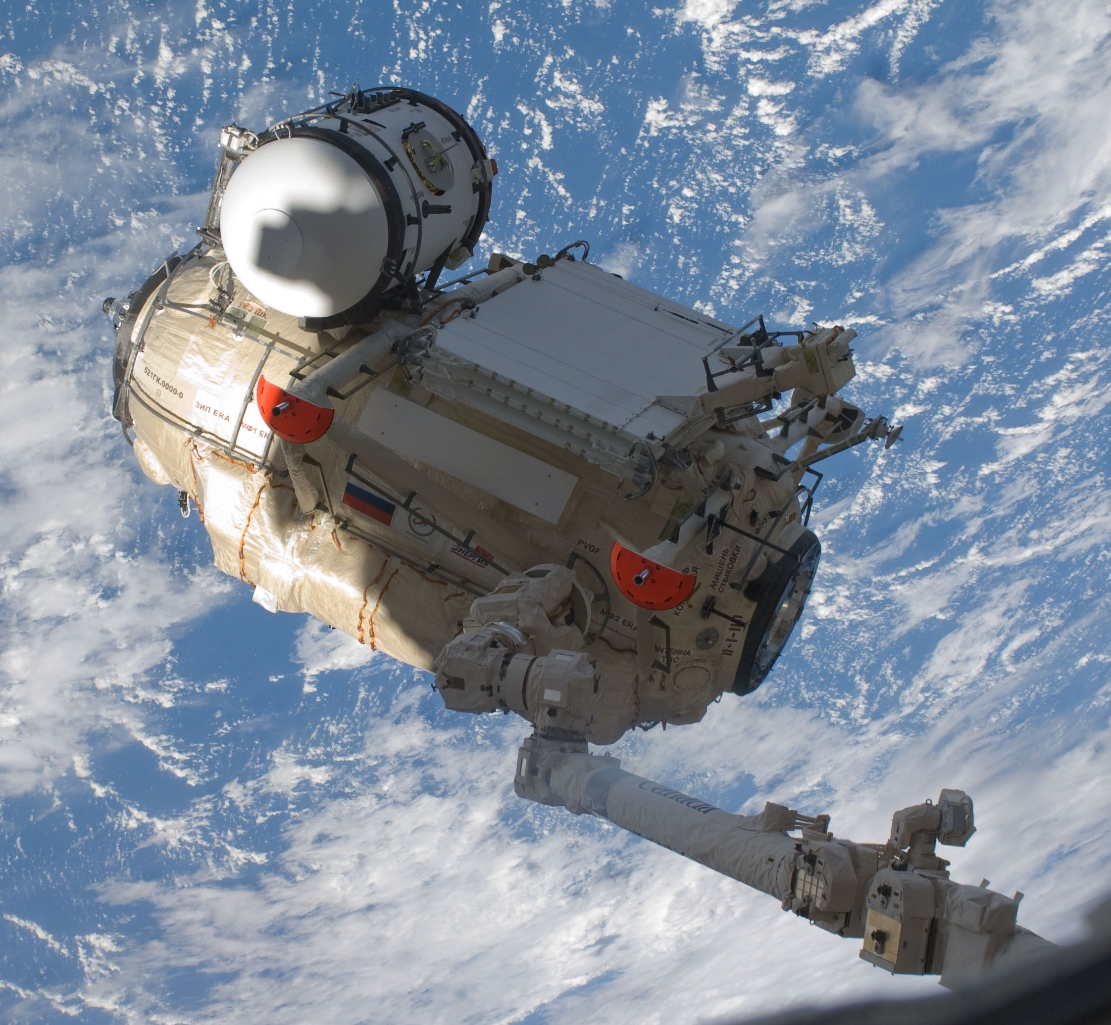 Cropped version of S132e008114.jpg, showing just the MRM1 and Canadarm2.